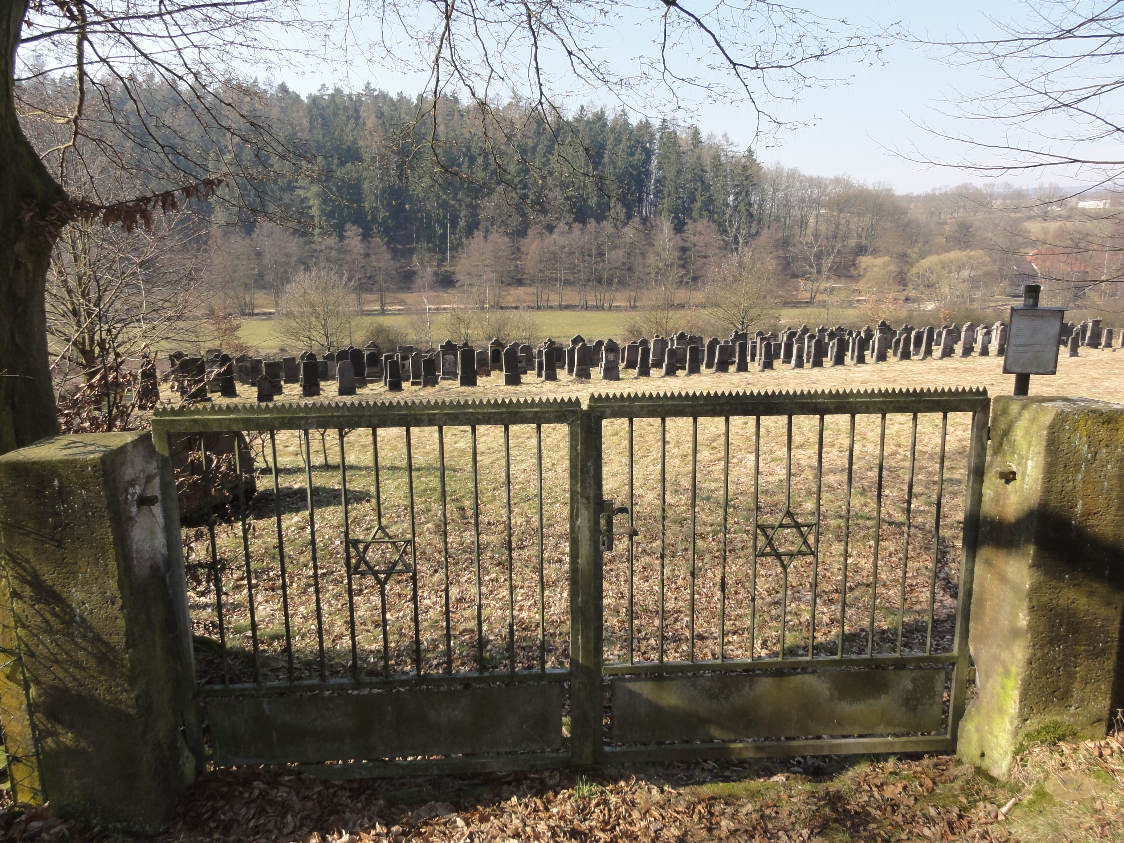 Entrance to the Jewish cemetery Haunetal